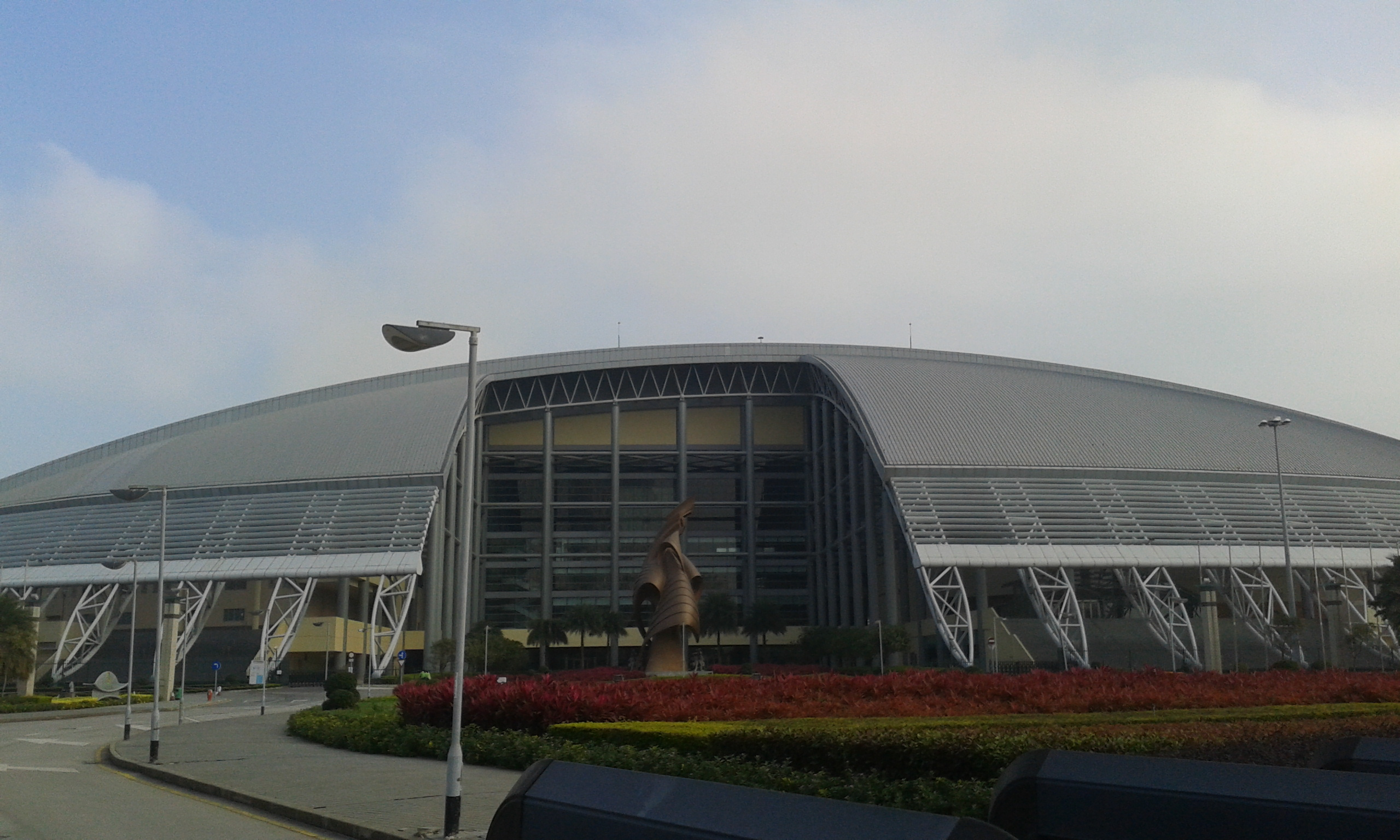 Macau East Asian Games Dome